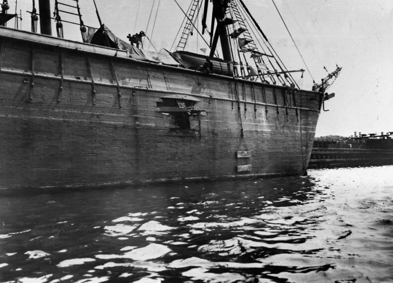 S/s Amalthea in the Port of Malmö with visible whole from bombing by anarchists